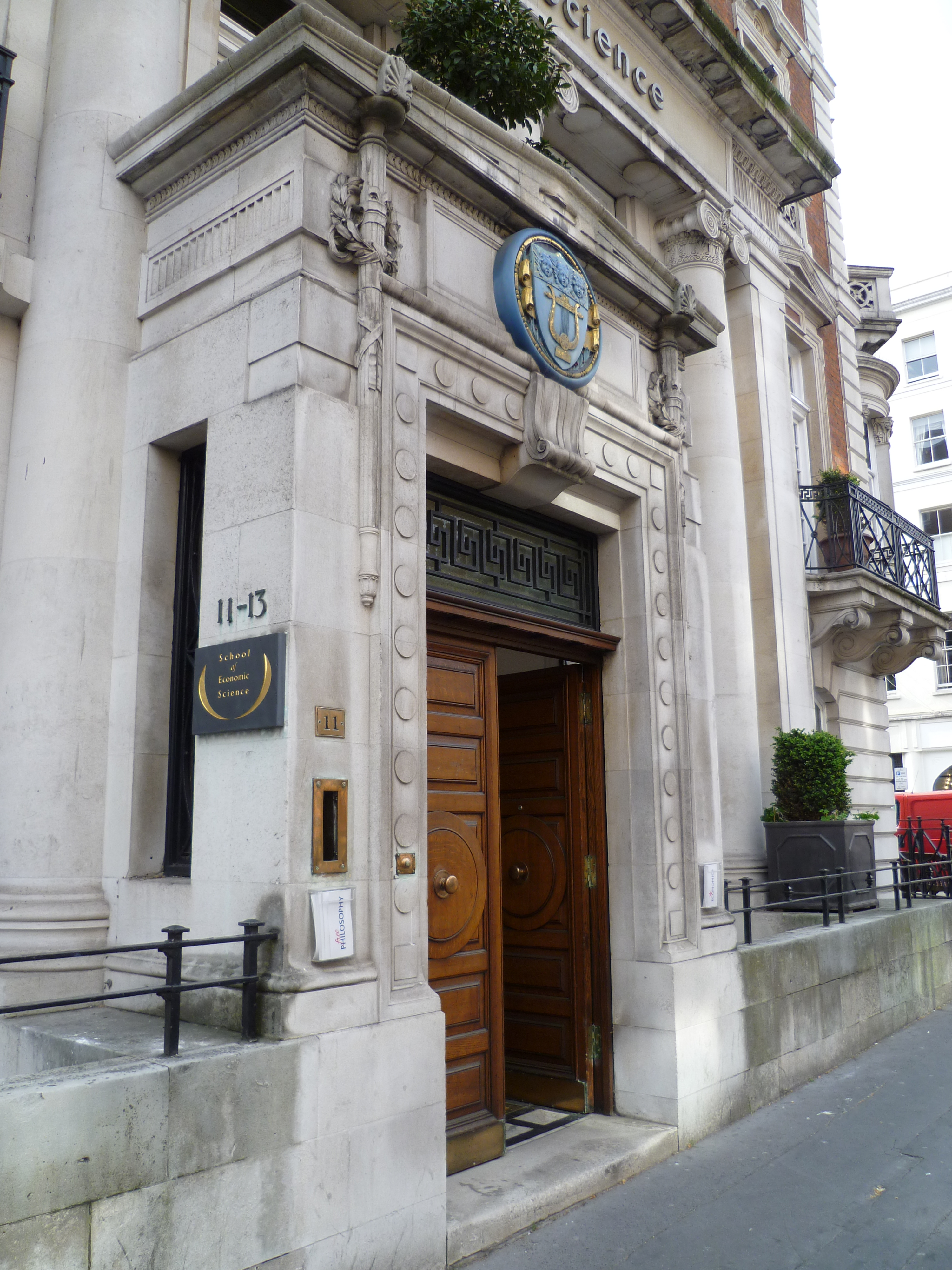 School of Economic Science, London 24 April 2015